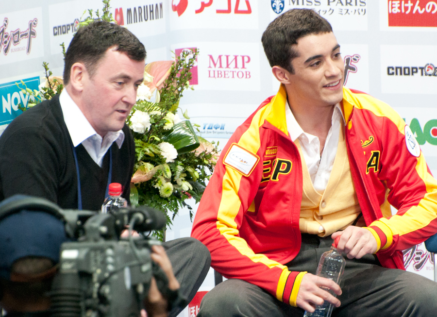 2011 Cup of Russia, short program.